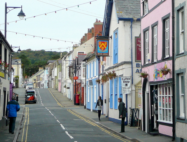 Church Street, Beaumaris A look along the length of the main road west, inland, towards North Anglesey.